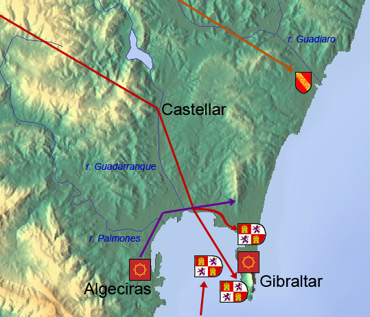 Map of movements in the Fourth Siege of Gibraltar